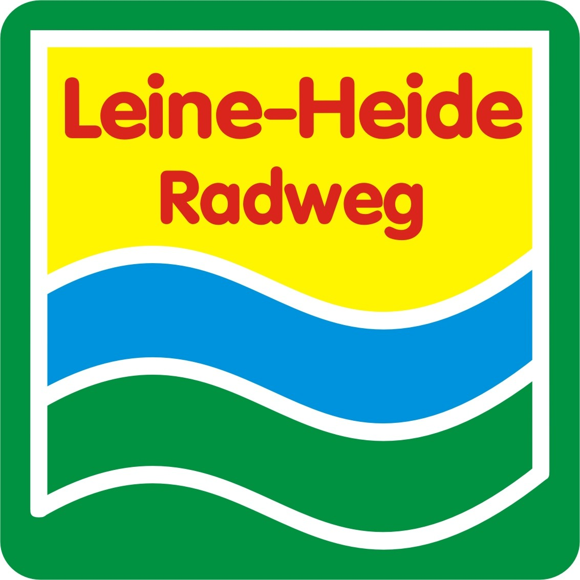 Sign for the Leine-Heath cycle path in Germany